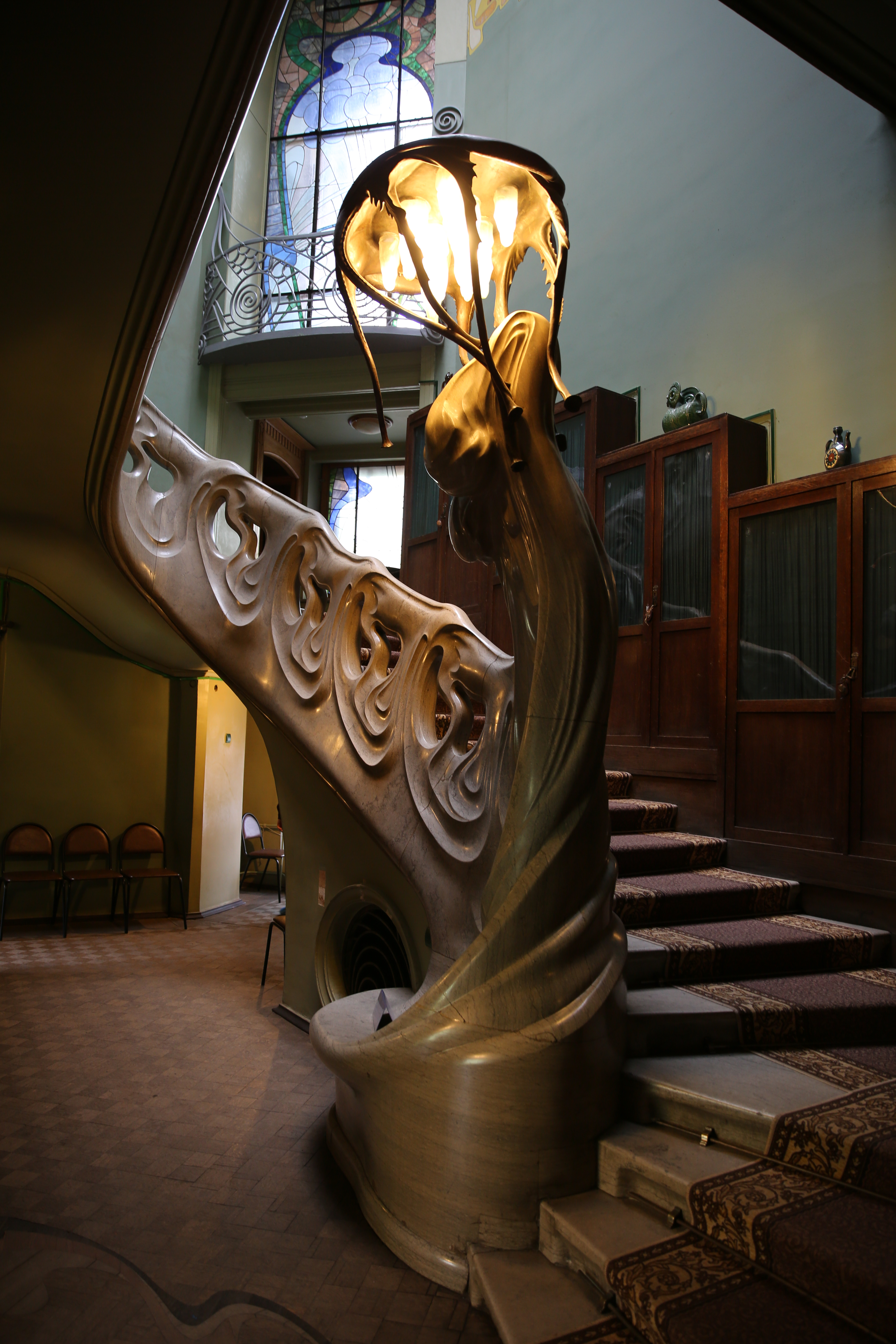 House of S. P. Ryabushinsky, 1900-1903, arch. F.O. Schechtel. Medusa-lamp.